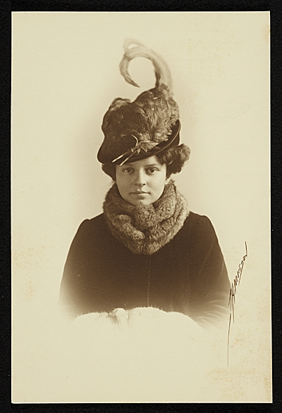 Half-length portrait of Katharine Lane Weems facing the camera and wearing a fur collar and a hat with feathers.